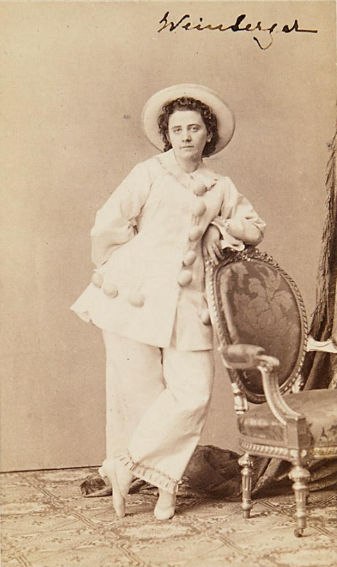 Austrian singer and actress Helene Weinberger as Pierrot in Adolphe Adam's operetta "Pierrot und Violette" (Les pantins de Violette), Vienna (Treumanntheater) 1861, photograph by Ludwig Angerer